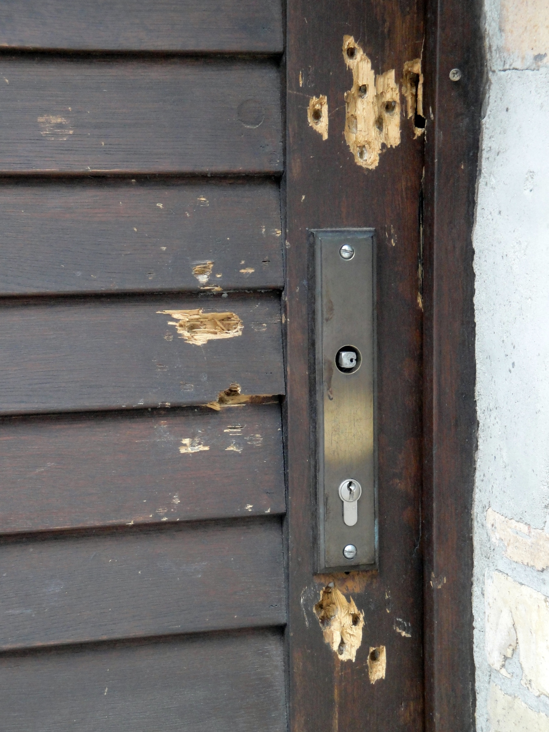 Bullet holes in the entrance door of the synagogue in Halle (Saale), Germany